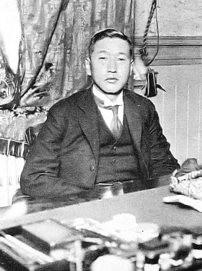 Zenjiro Horikiri